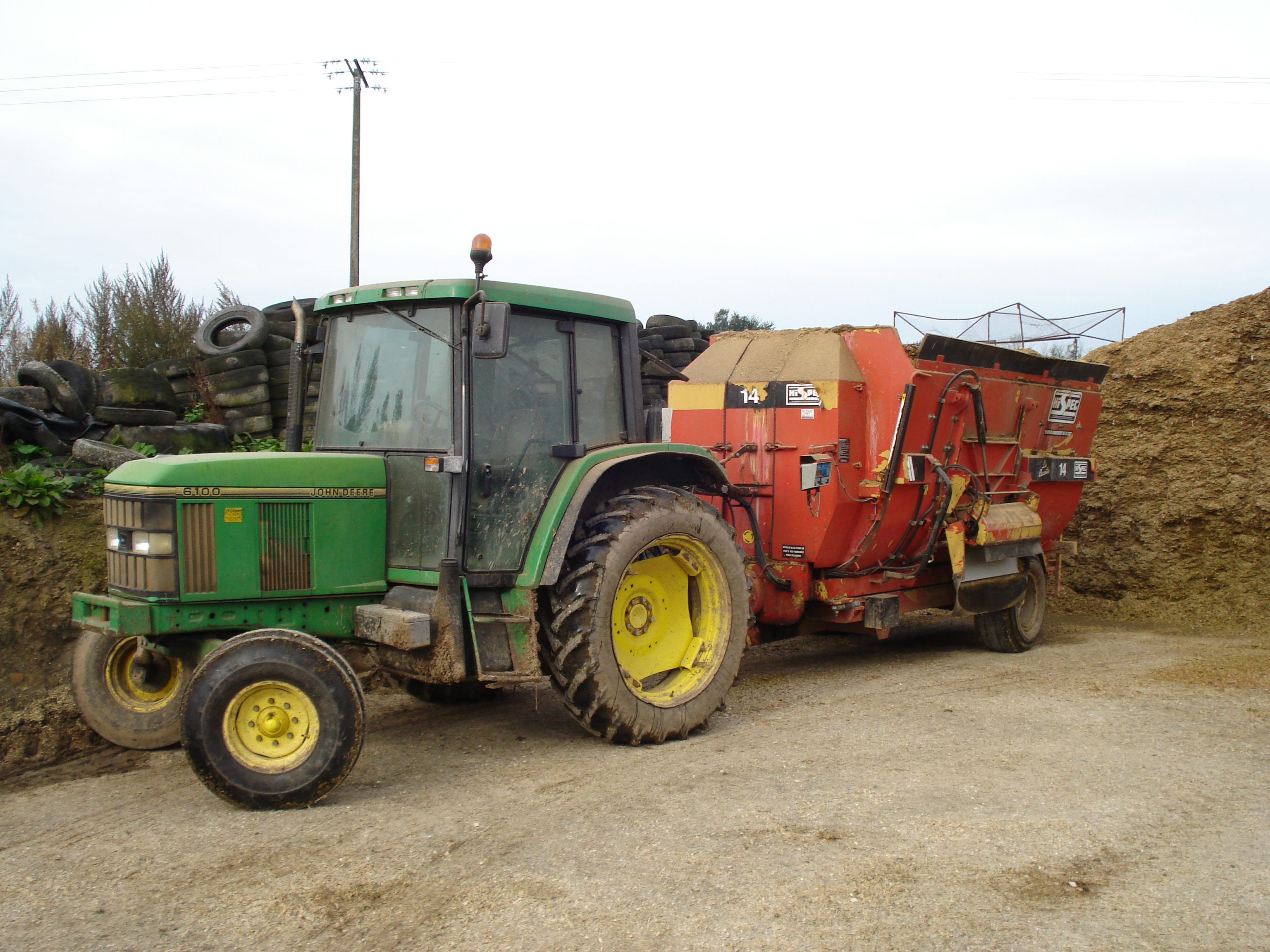 A paddle-type HiSpec mixer-wagon coupled to a John Deere 6100 tractor, maize silage in the background, France